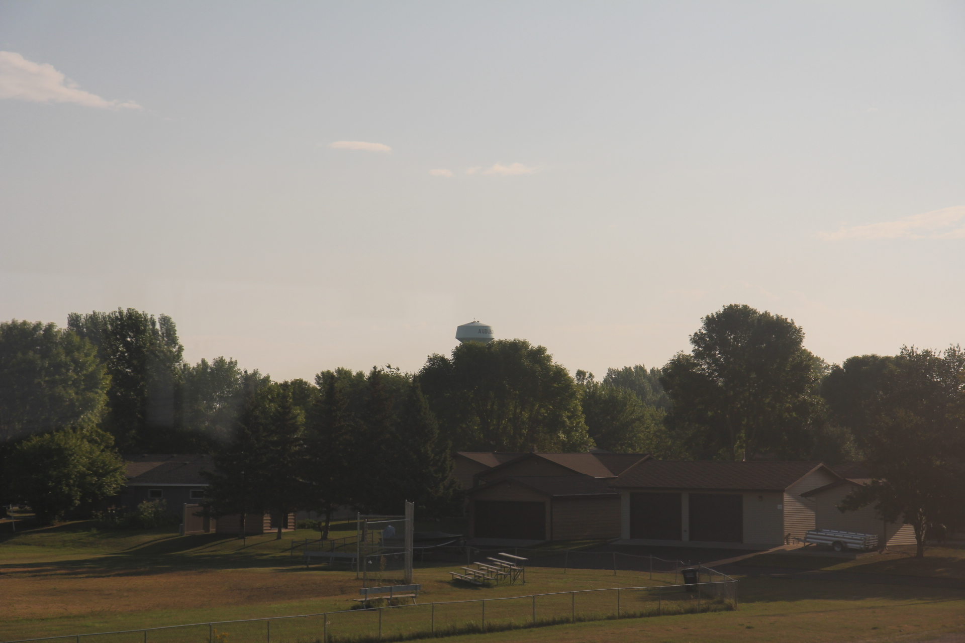 Audobon, MN and its water tower.